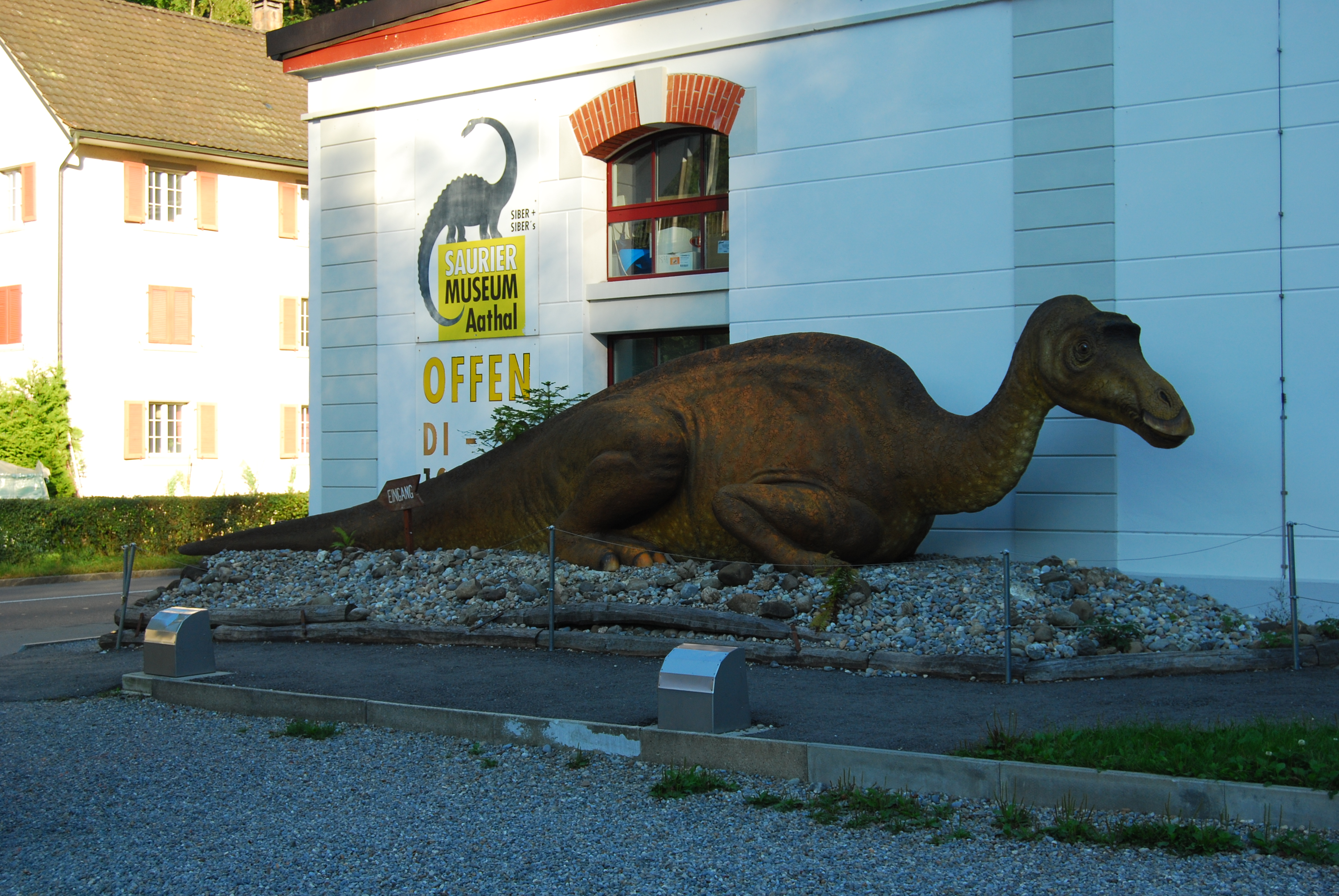 Dinosaur Museum Aatal at Seegräben, canton of Zürich, Switzerland